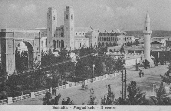 Central Mogadishu in 1936. Arba Rucun mosque to the centre right. Shown on a postcard from the 1930's.